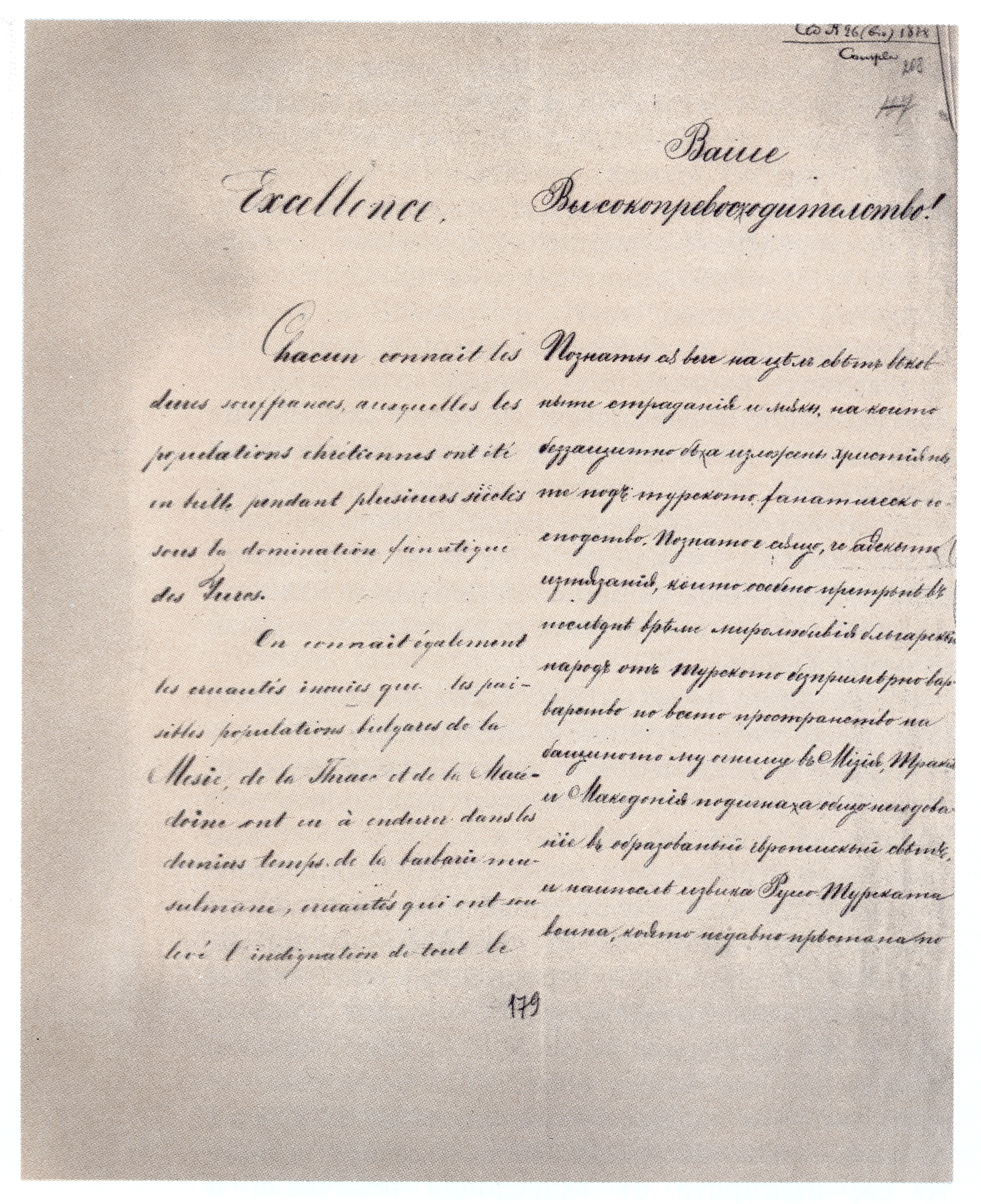 Memorandum of the Macedonian Bulgarian Municipalities to the Great Powers for unification with Bulgaria. Page 1